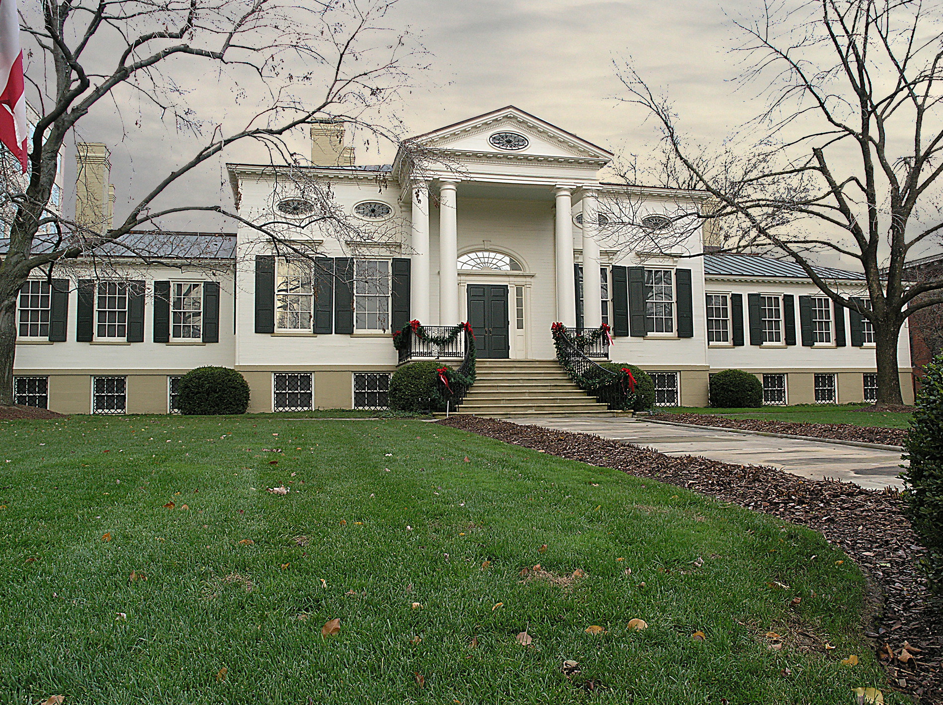 Taft Museum of Art